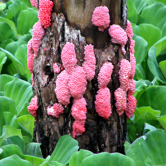 This photo taken in Lianjiang, China shows the pink eggs of Pomacea canaliculata (apple snail) sticking to a stock and Pistia stratiotes (water lettuce) floating on the water surface in a pond.